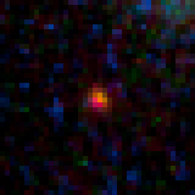 Hubble Space Telescope view of MACS0647-JD (MACS J0647+7015) - one of the most distant galaxies known.